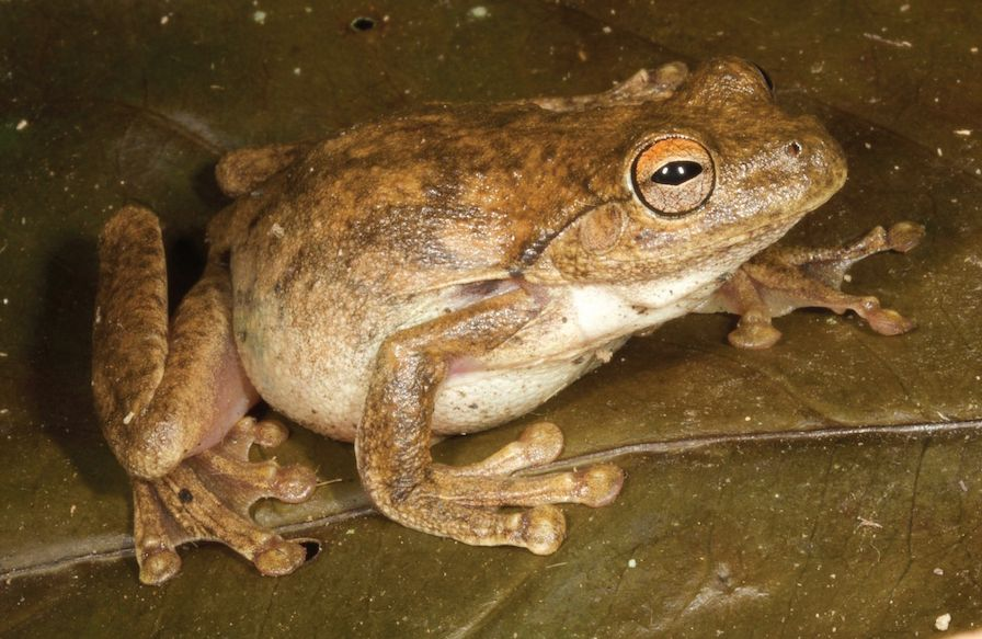 Litoria everetti. Female from near Eraulo, Ermera District.